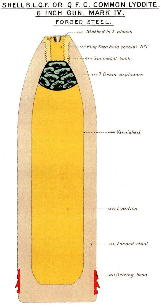 Diagram of British Mk IV 6 inch Common Lyddite shell. This is an example of the early geneneration of British high explosive shell designs, with shell walls the same thickness for the entire length. Later designs had walls progressively thinner fron base to nose, providing room for more explosive - compare Image:BL6inchMkVIILydditeShell.jpg. The shell is fitted with No. 5 Broad Vavasseur driving band with gas check (Original). Filled with 10 lb 6 oz Lyddite. Total weight filled & fuzed 101 lb 2 drams. Length 20.57 inches. For use with following guns : BL 6 inch Gun Mk VII Naval and Land service